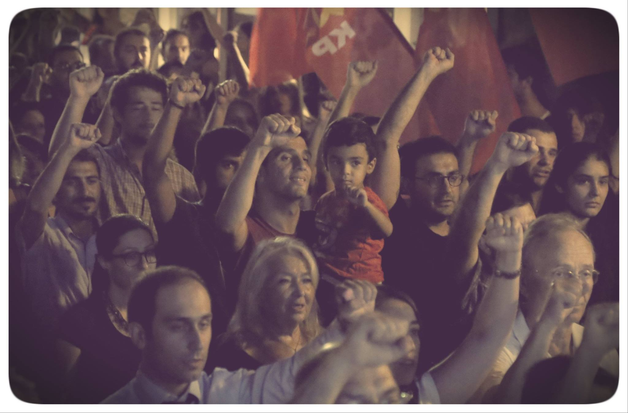 Communist Party 10092014 Istanbul foundation anniversary